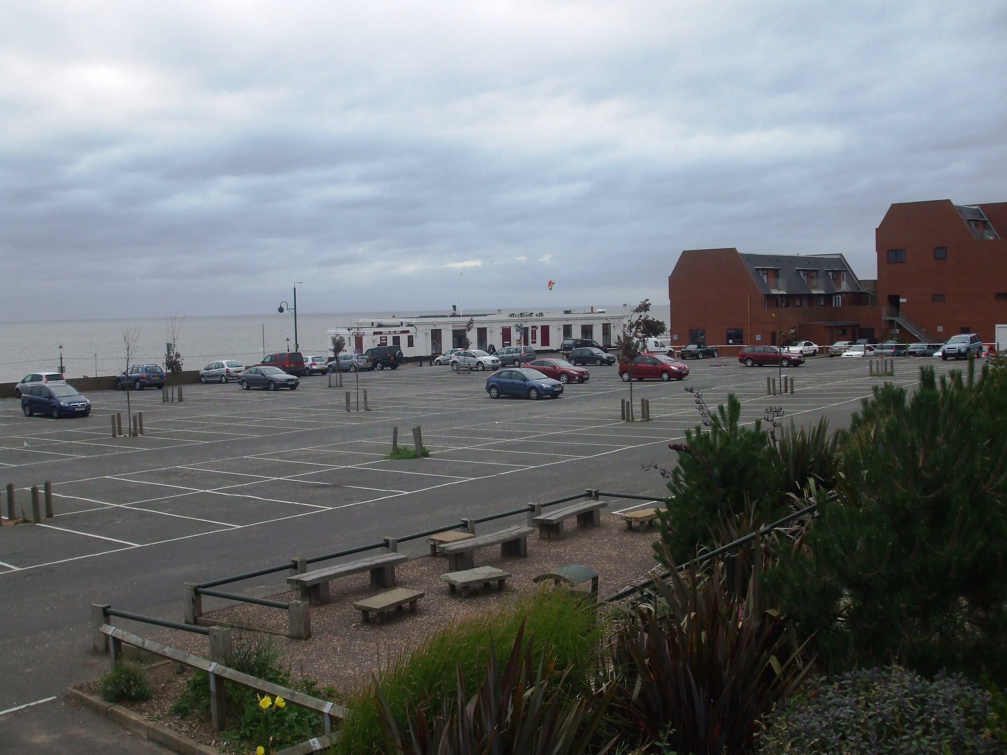 Site of Hunstanton railway station, Norfolk, now a car park.